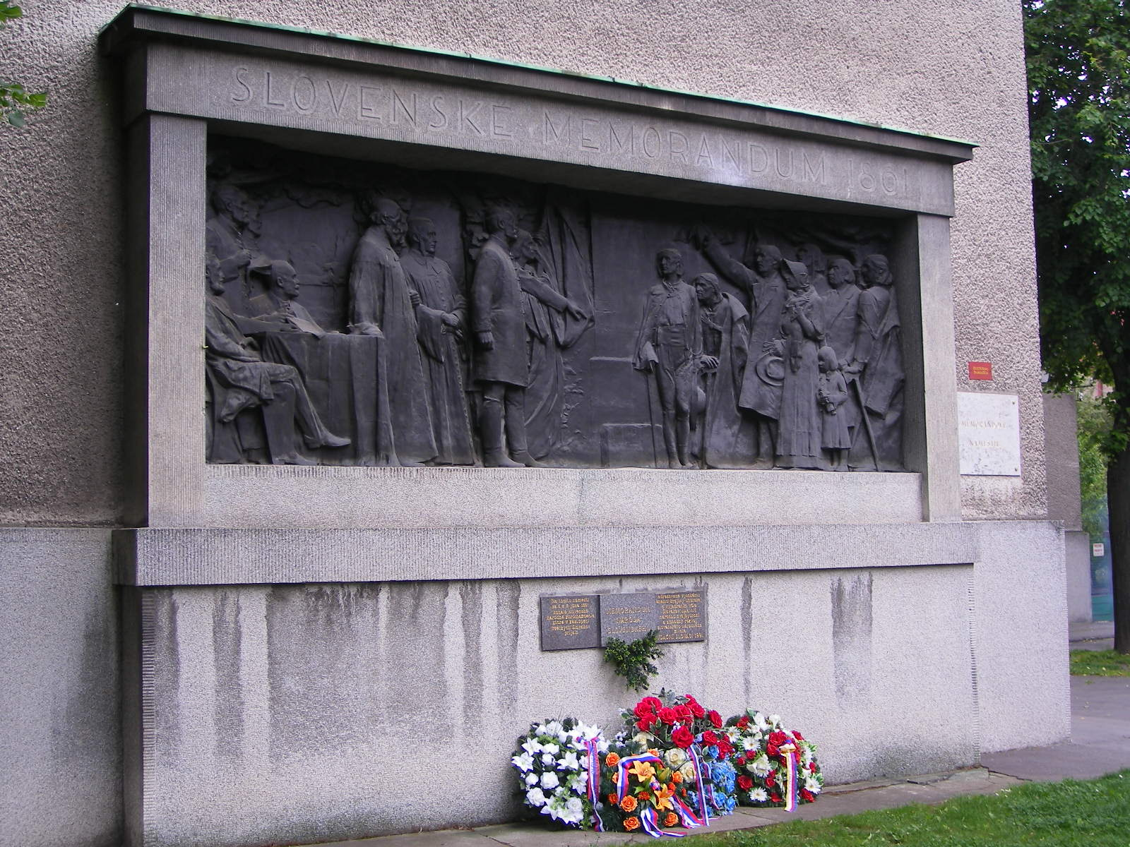 Martin - memorial of the Slovak Memorandum